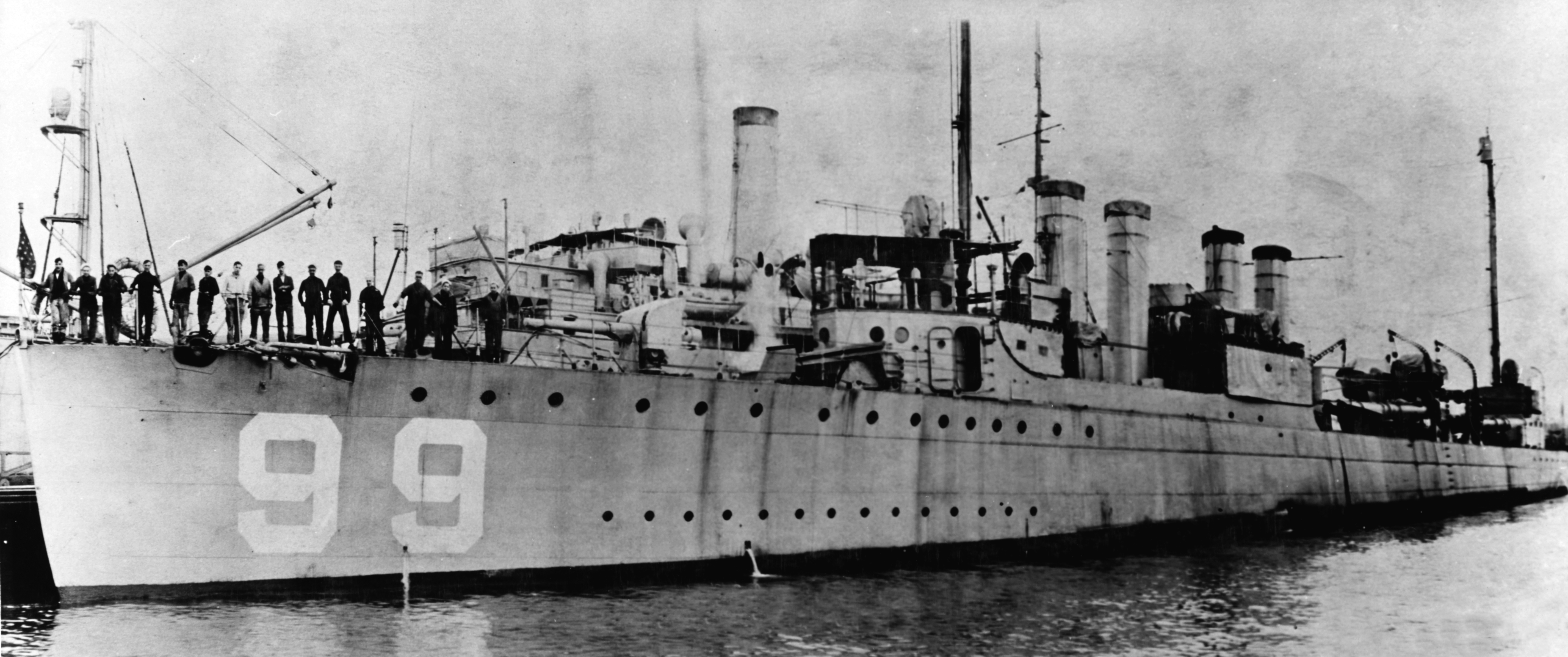 The U.S. Navy destroyer USS Luce (DD-99) at the Boston Naval Shipyard, Massachusetts (USA), on 28 November 1919.